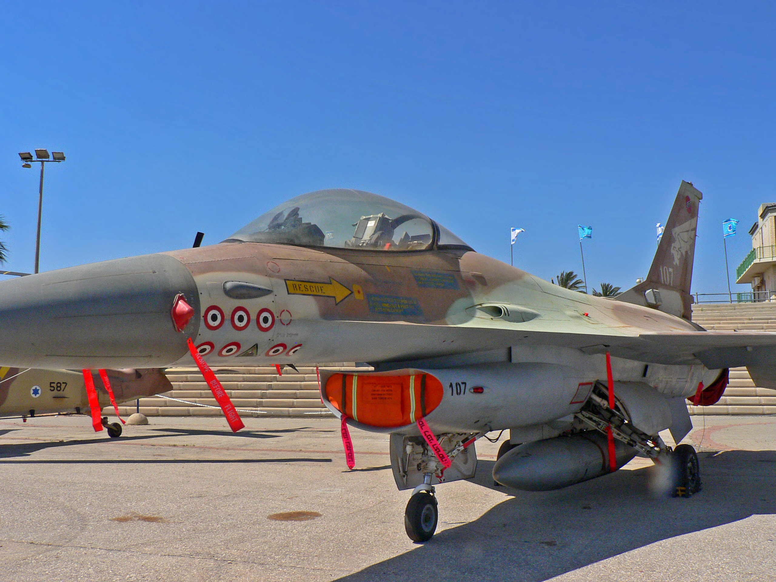 IAF F-16 Netz that shot down seven Syrian airplanes and bombed the Osiris nuclear reactor in Iraq (then flown by Amos Yadlin). Note: The triangle symbol is a modification of that seen in File:IQAF Symbol.svg